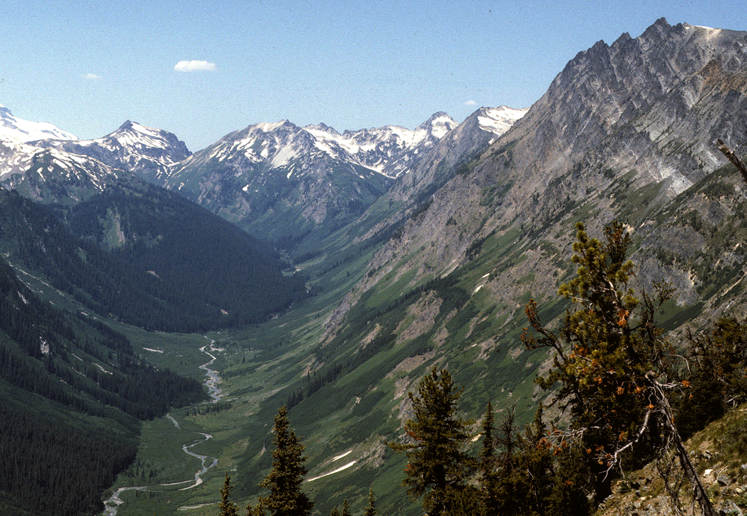 View from Little Giant Pass of the Napeequa River Valley, eastern Cascade Range, Washington, United States